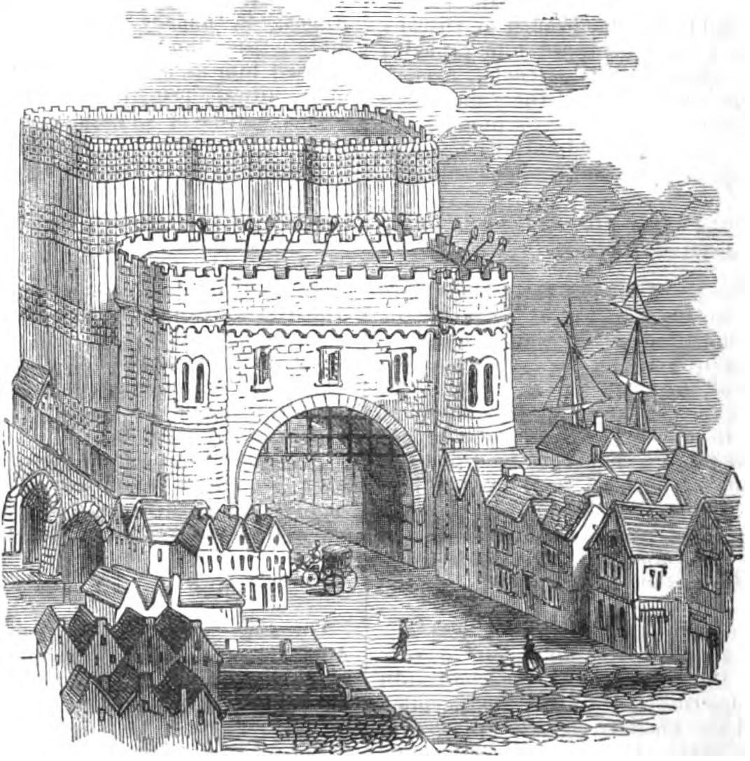 Traitors' Gate, Old London Bridge (Robert Chambers, p.158, 1832)